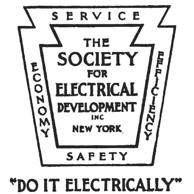 The logo for the Society For Electrical Development Inc. was setup in 1913 by the U.S. electric industry to conduct a nationwide PR campaign to expand the consumption of electricity and oppose public ownership of electricity